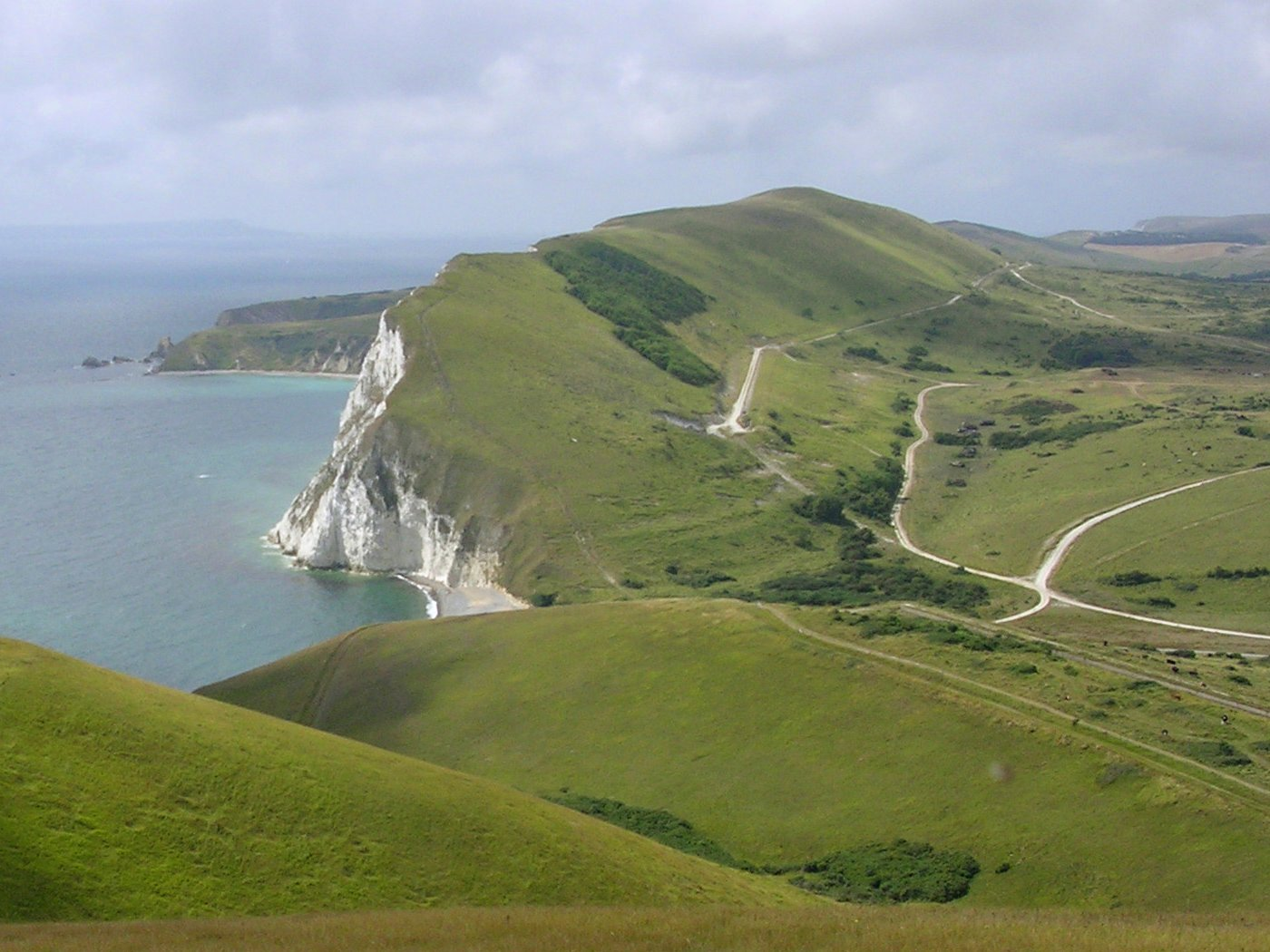 View of the eastern end of Bindon Hill from Flowers Barrow